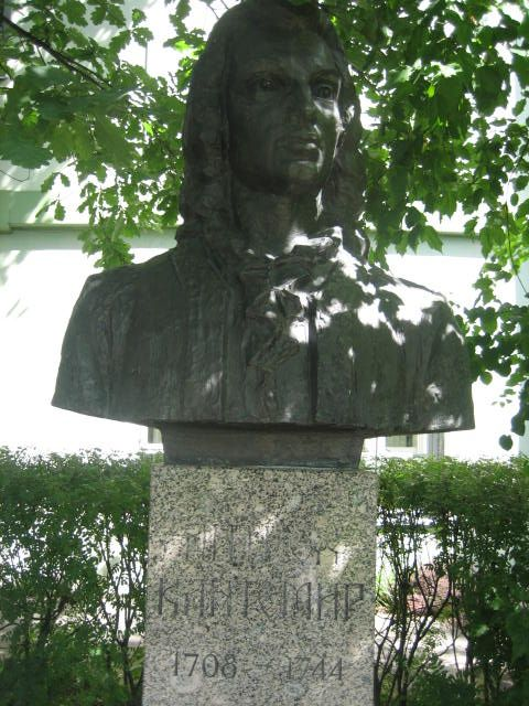 Memorial for Antiochus Kantemir, patio of philological faculty, Saint Petersburg State University